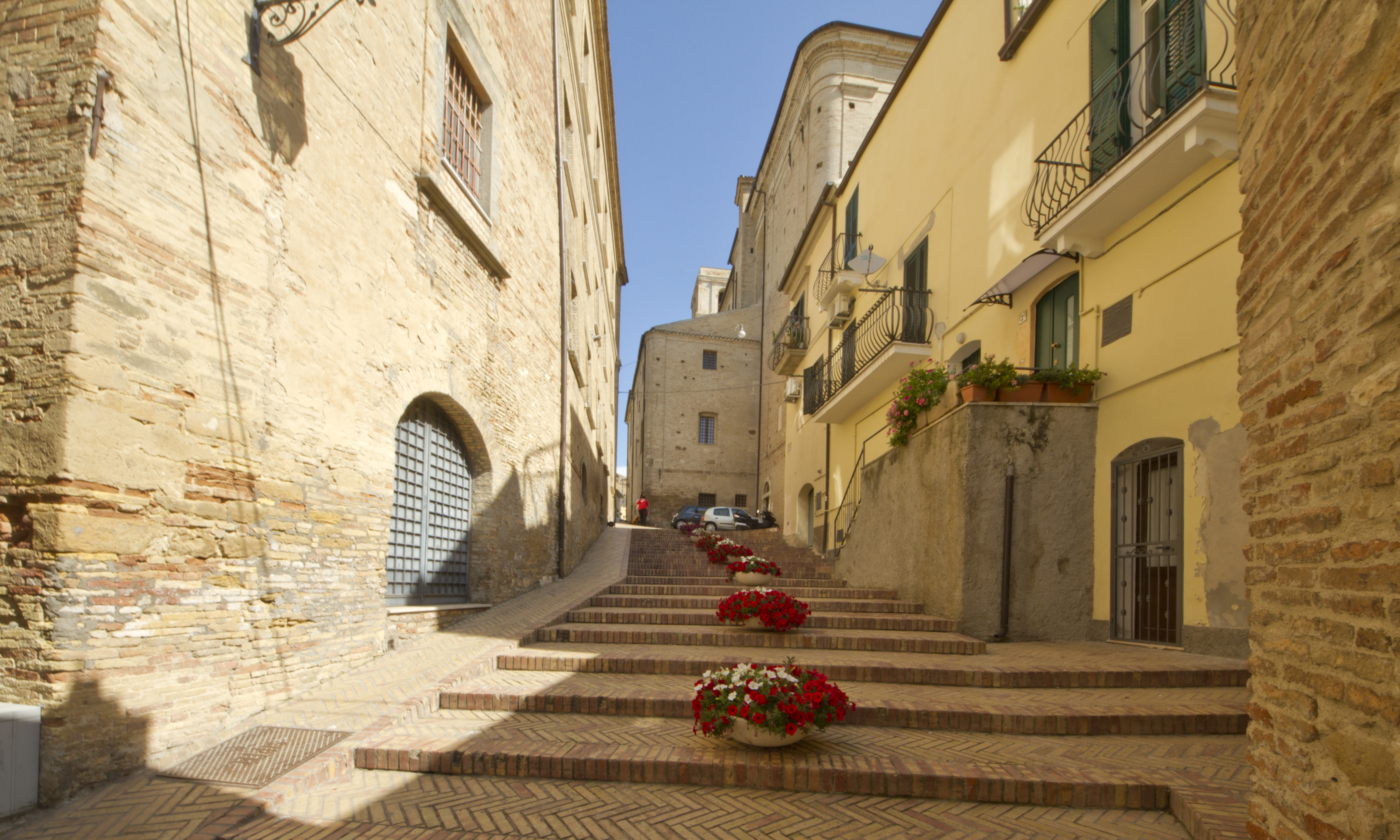 66054 Vasto, Province of Chieti, Italy